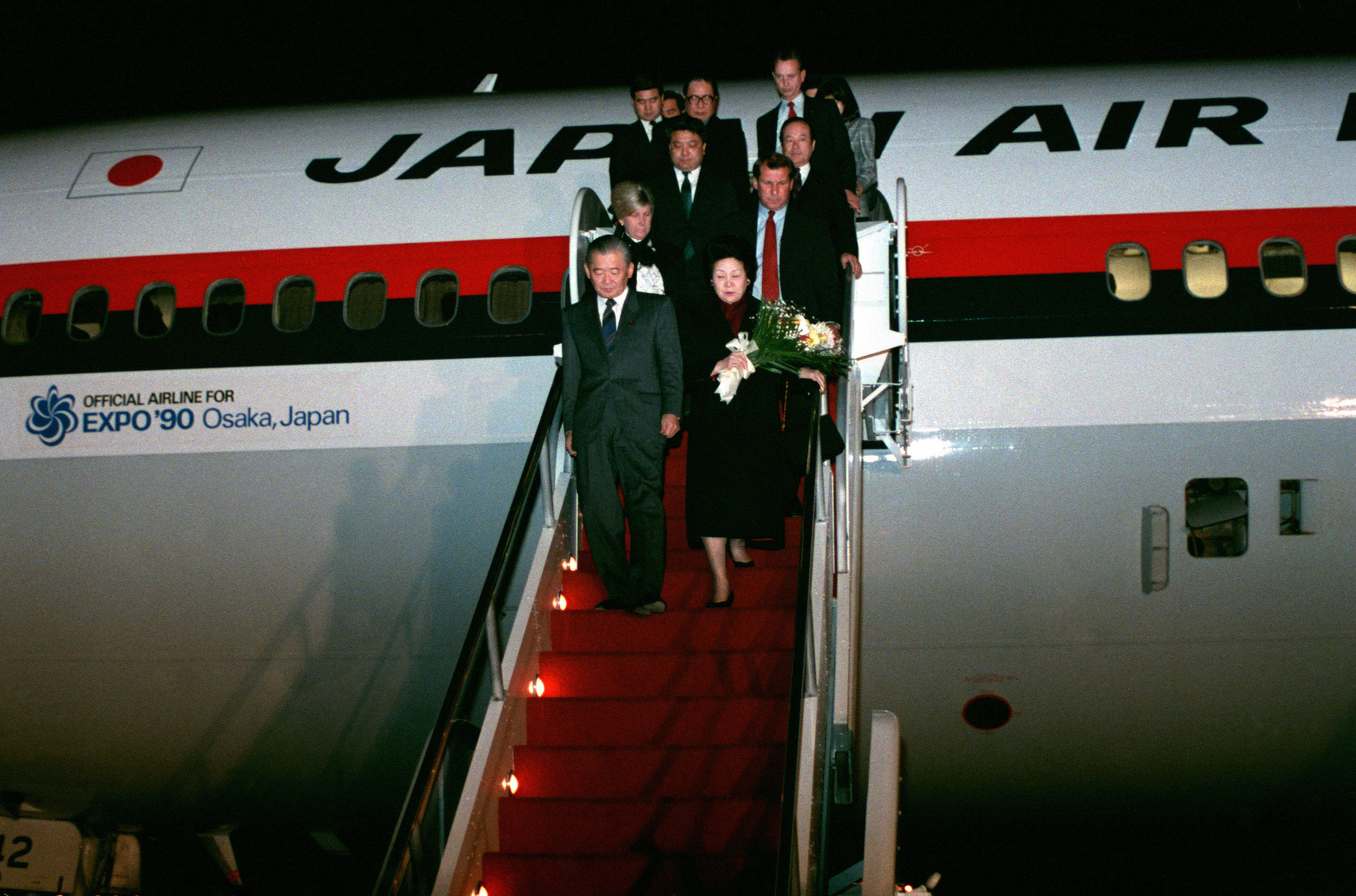 Japanese Prime Minister Noboru Takeshita (竹下登, 1924–2000) and his wife disembark from their plane upon arrival for a state visit.